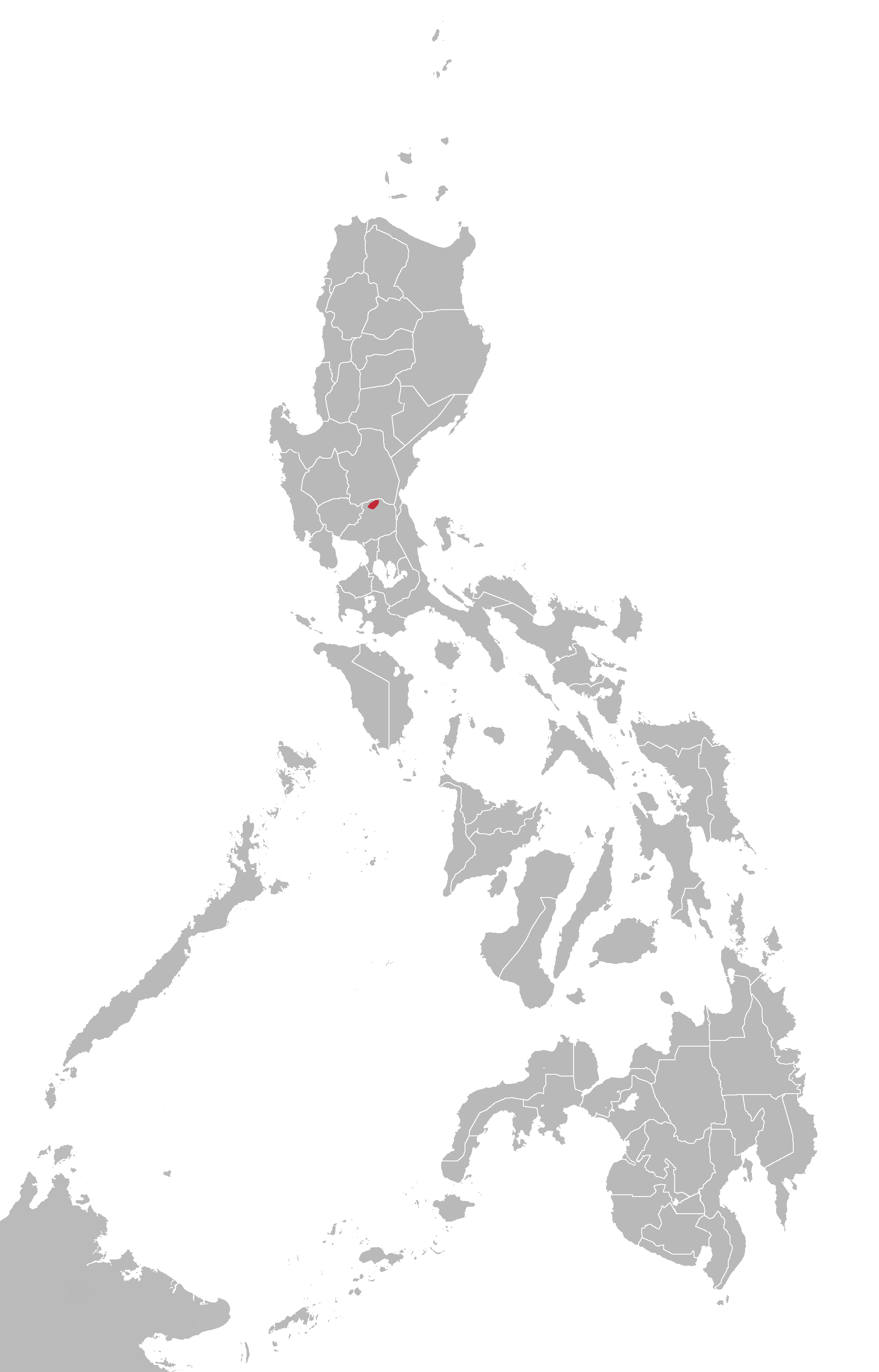 Southern Alta language map according to Ethnologue maps